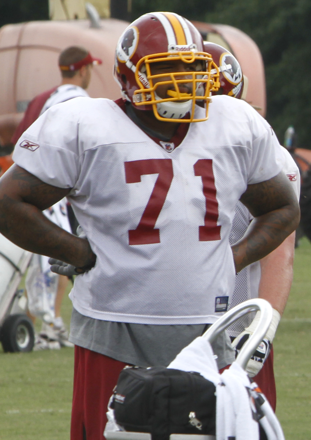 Trent Williams at Washington Redskins Training Camp August 15, 2011